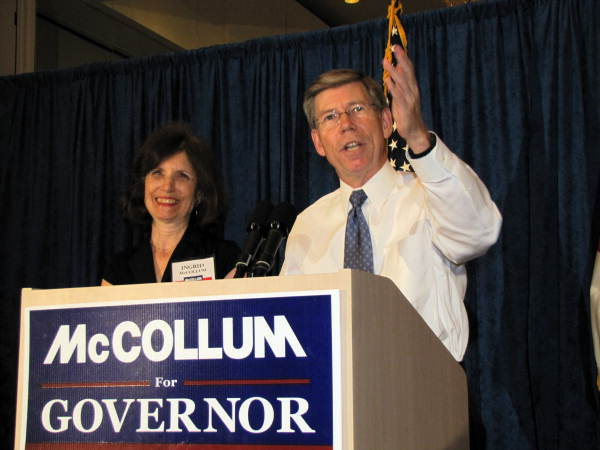 Attorney General Bill McCollum making a campaign speech in Tampa at the Florida Republican Party quarterly meeting. Accompanying note: "His wife, Ingrid McCollum, smiles at left."